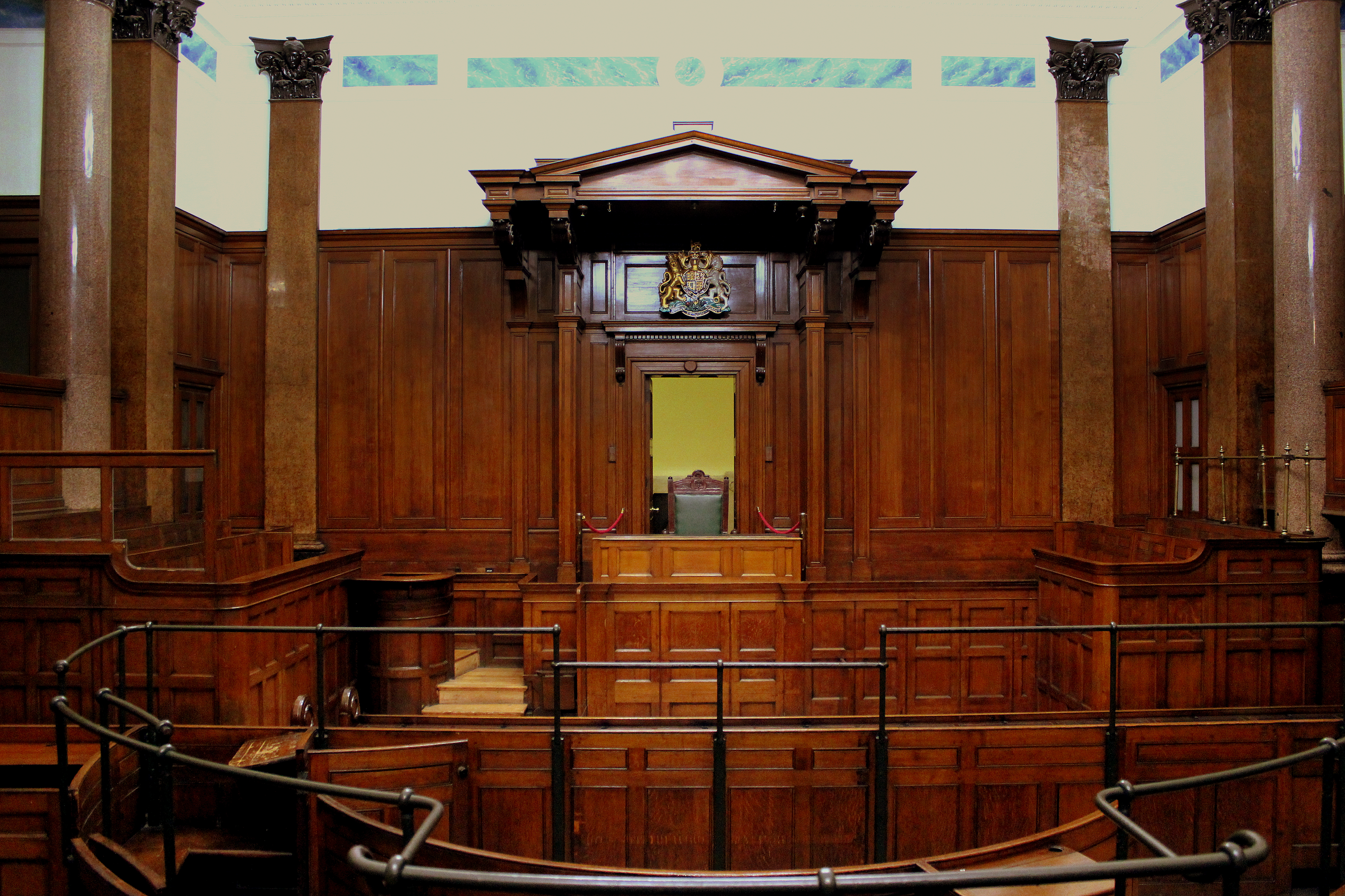 THE CROWN COURT NO1 ST GEORGES HALL LIVERPOOL JAN 2013